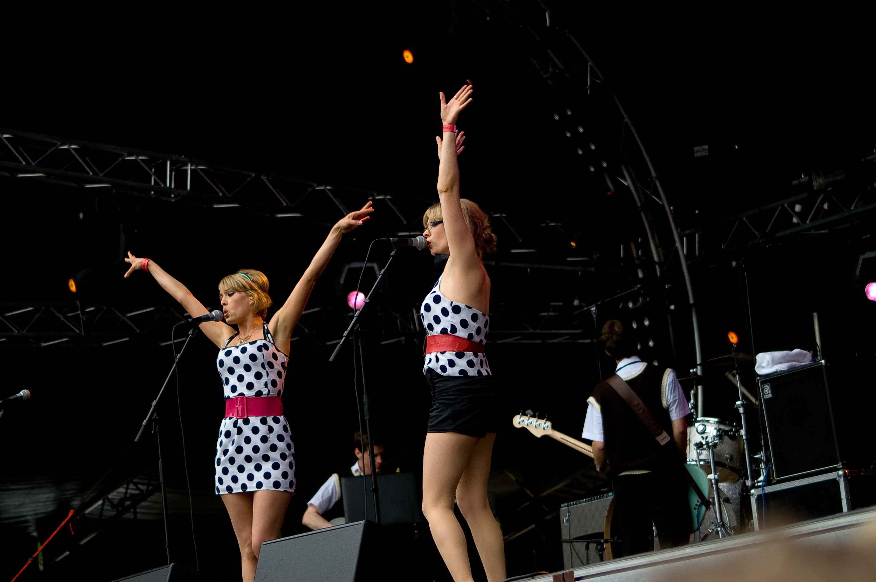 The Pipettes at Ruisrock 2007